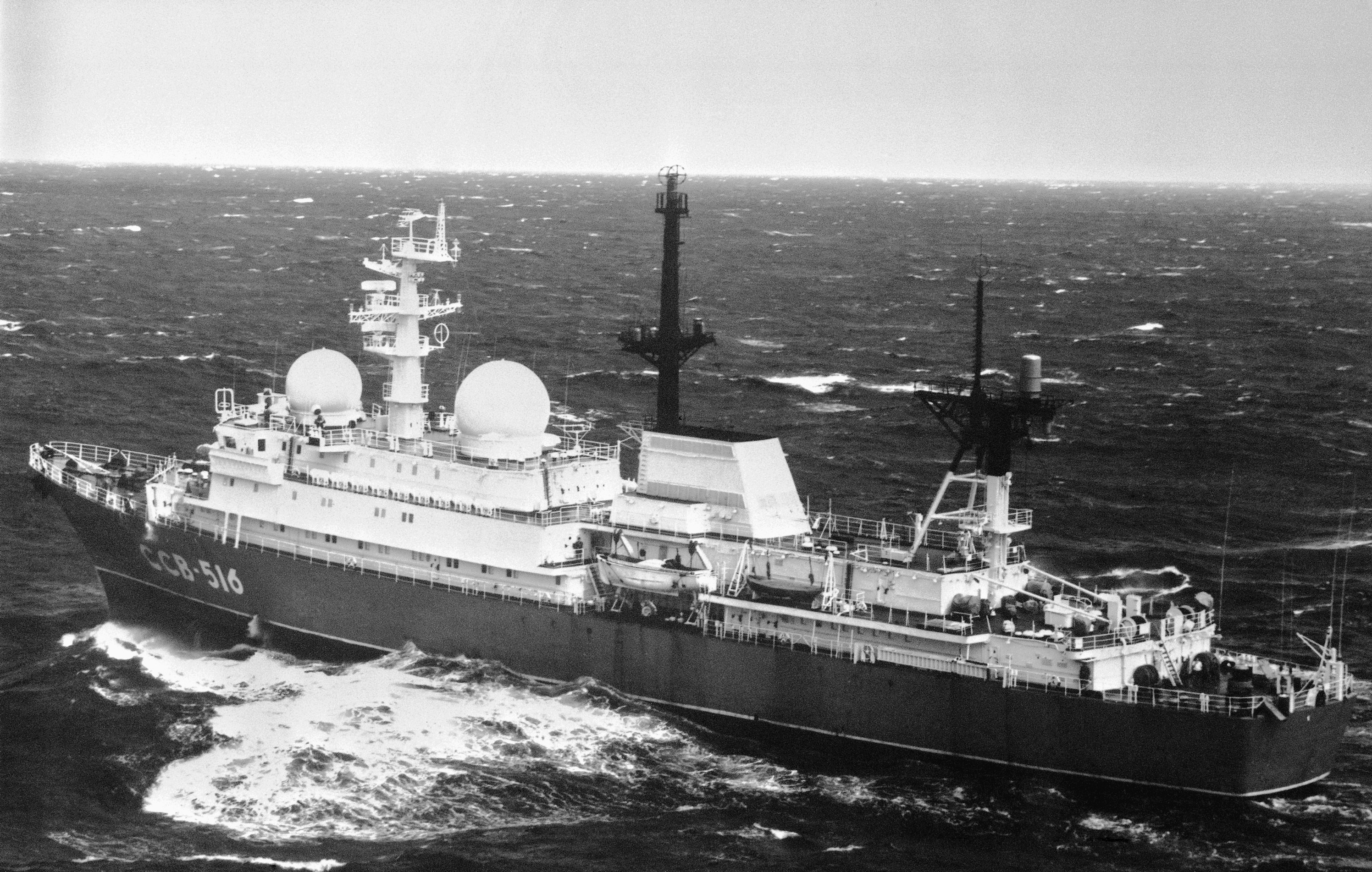 Aerial port quarter view of Soviet Balzam class auxiliary general intelligence ship SSV-516 underway.